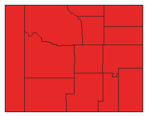 Results of the 1902 Wyoming Governor Election by county.